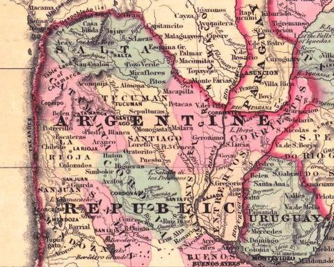 Old map of northern Argentina (early 19th century)